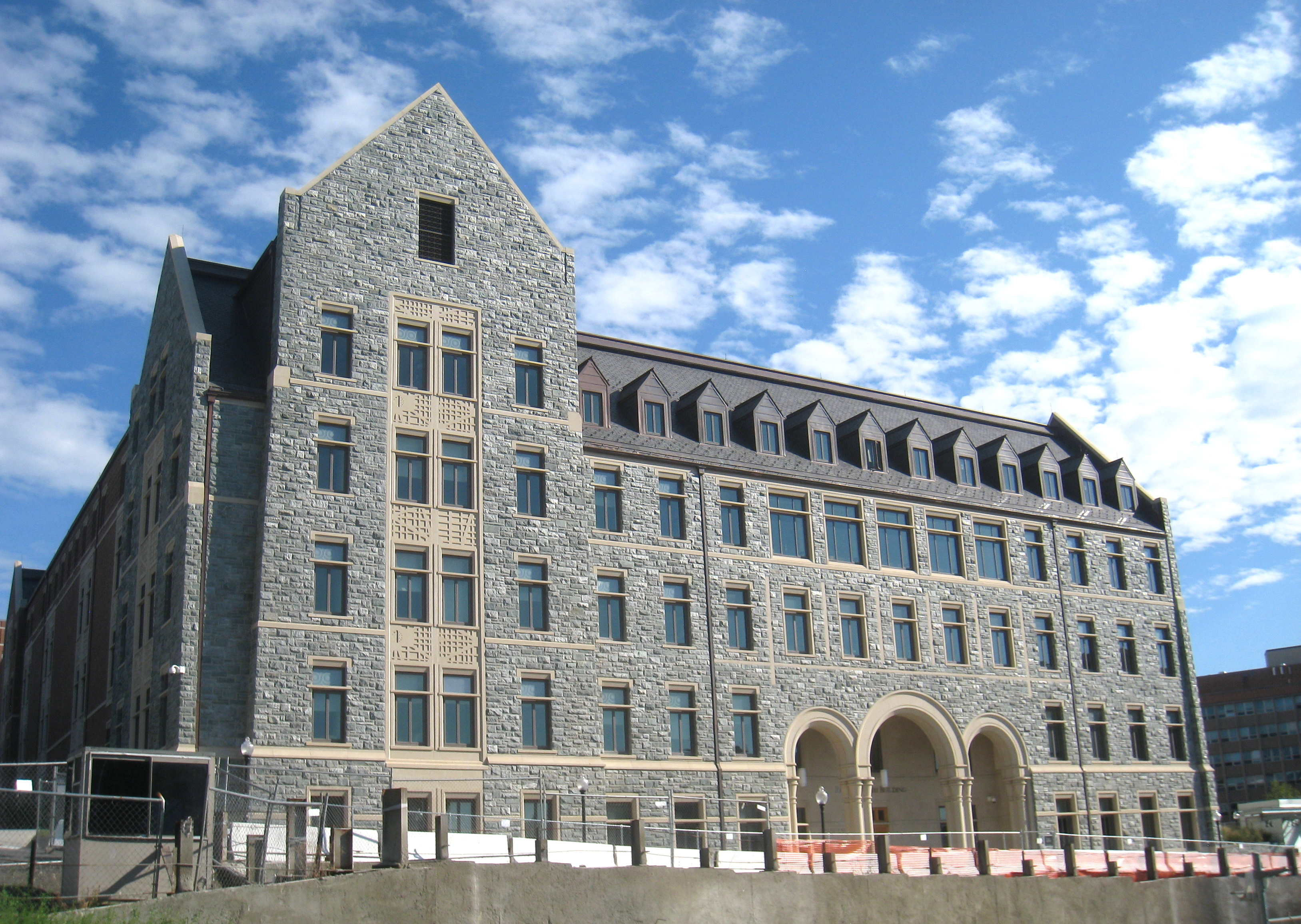 Georgetown University, Washington, DC, USA.